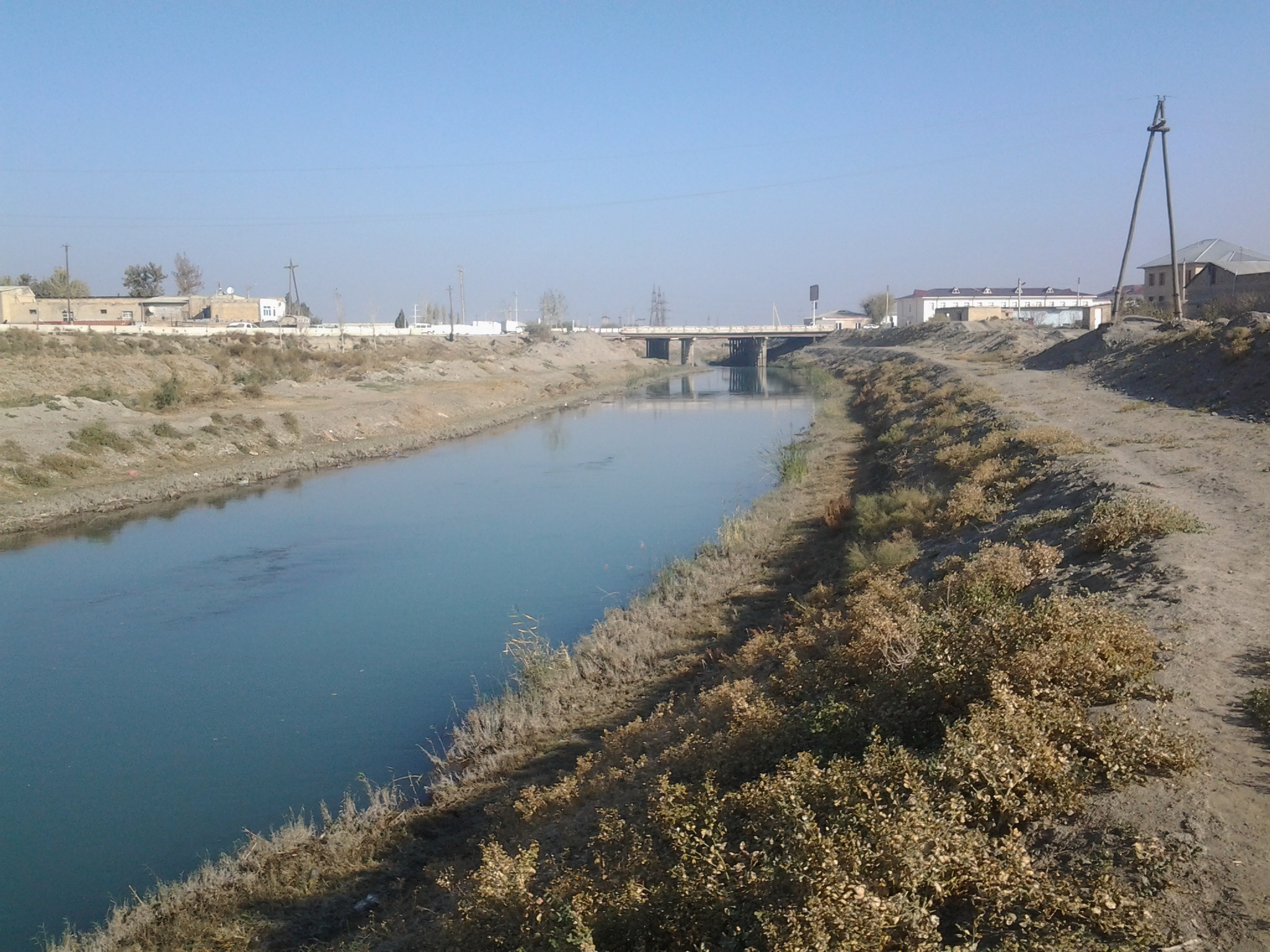 Central Bukhara collector (canalized riverbed of Zeravshan river) near Jondor town